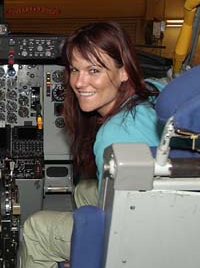 Amy "Lita" Dumas and Matt Hardy (not seen in this crop) and at the 190th Air Refueling Wing, Kansas Air National Guard in Forbes Field in Topeka, Kansas.